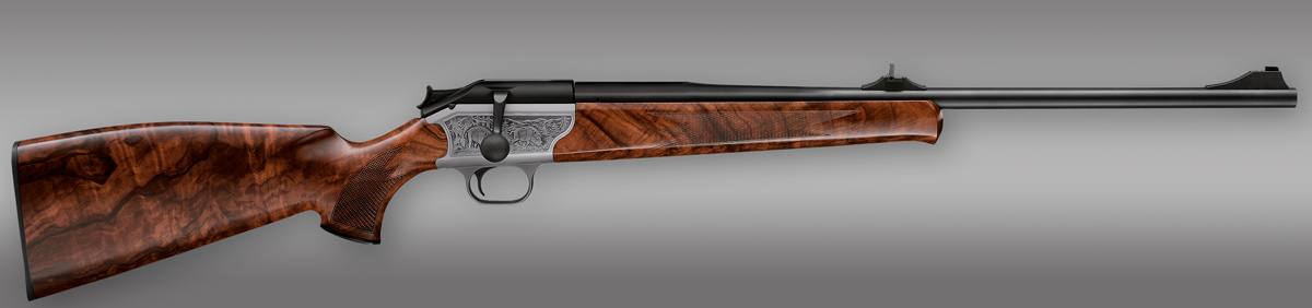 Bolt-action hunting rifle Blaser R93, grade Luxus